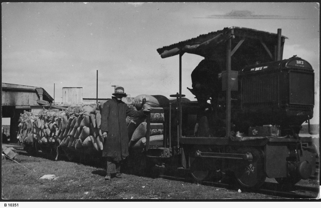 Narrow gauge track operated by a salt company between its factory and Muston, the port of shipment. The worker is Laurie Shakeshaft (1881-1960) and the prime mover is the Day's Rail Tractor built by W. Day & Sons of South Melbourne. During the 1800s salt was scraped from the surfaces of Muston Lake, White Lagoon, Salt Lagoon and smaller ones near Kingscote. Most of this was used for domestic purposes, meat preservation and tanning of hides which were pegged out on wooden boards and coated with salt. Exports of salt from Kangaroo Island to Adelaide in 1843 was 13 tons and by 1913 it was 20,000 tons.